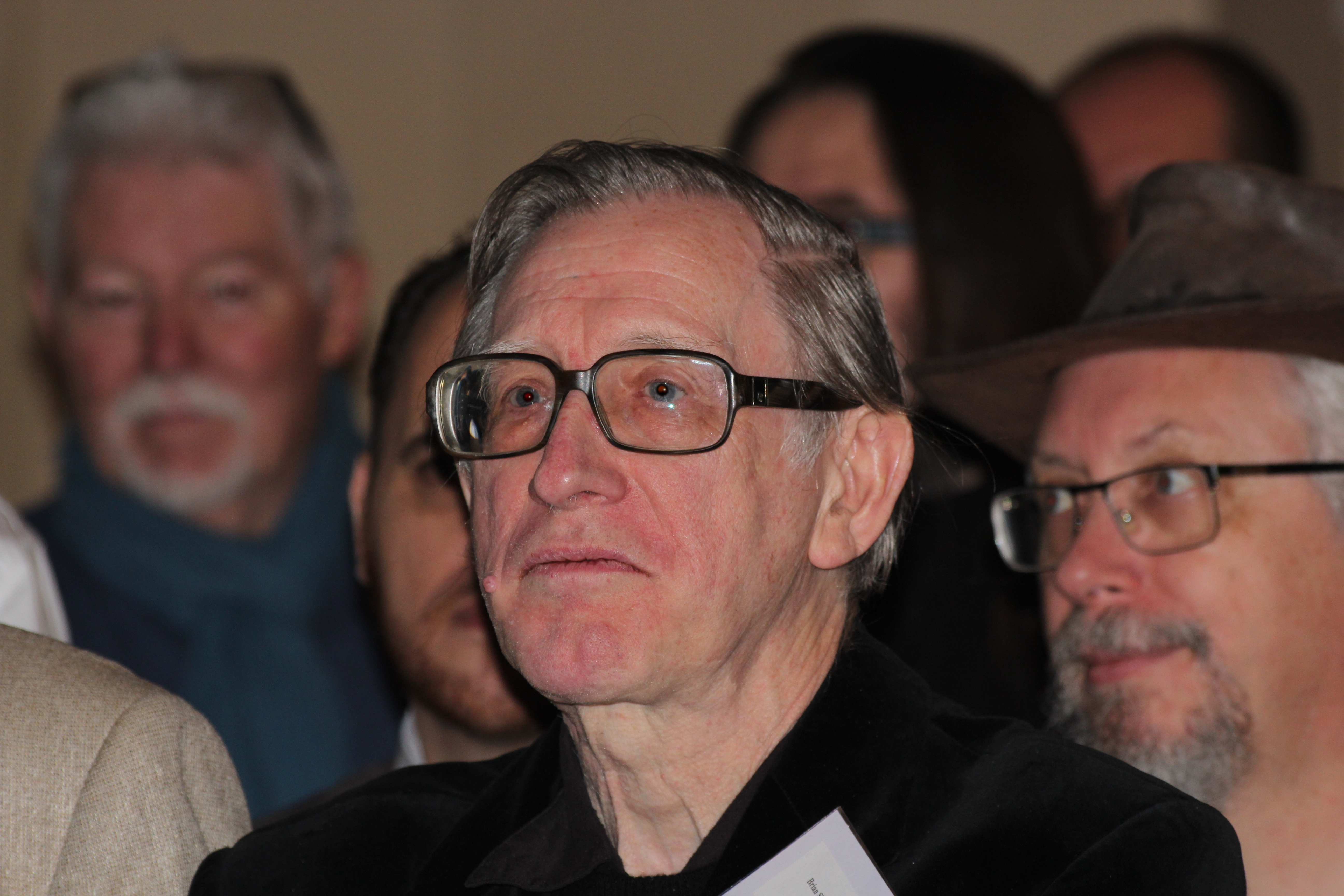 Brian Stableford guest of honor at the 13th Rencontres de l'Imaginaire on November, the 26th 2016 in Sèvres, France. Object location48° 49′ 29.24″ N, 2° 12′ 54.36″ E